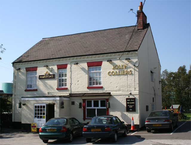 The Jolly Colliers. Typical miners' pub in the Coalville area which has been associated with mining since the early 1800s.